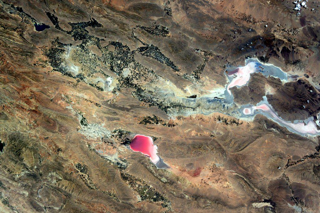 ESA astronaut Samantha Cristoforetti of Italy who is photographing Earth from the International Space Station, taken May 22, 2015